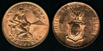 Half cent